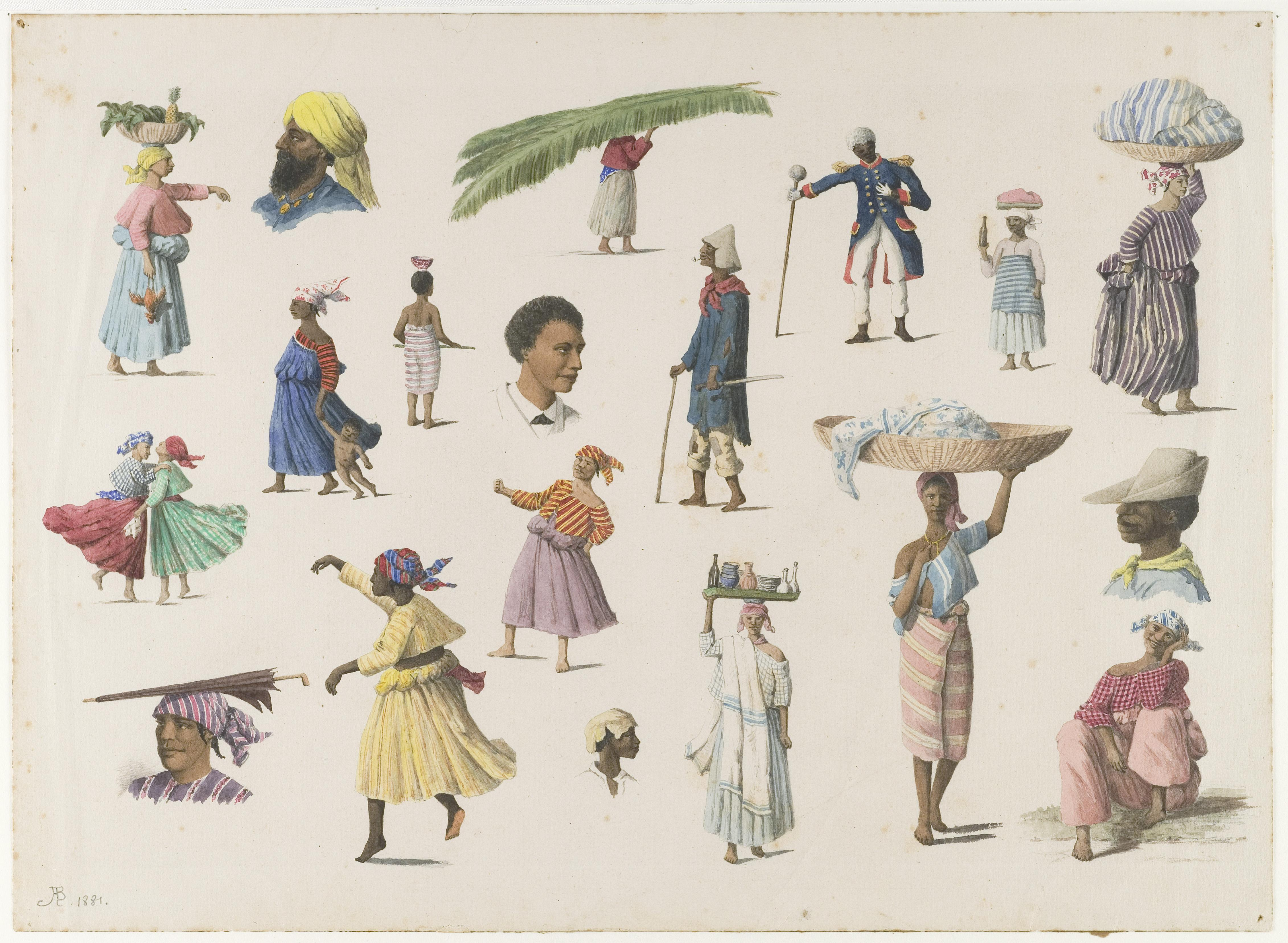 This watercolor by Arnold Borret (1848-88) consists of small sketches of different members of society and their various ethnic backgrounds in the Dutch colony of Suriname in the late 1880s. Borret was an accomplished amateur artist who was also a lawyer and a Roman Catholic priest. He studied law at the University of Leiden and practiced in Rotterdam before becoming a clerk, in 1878, to the Supreme Court in Paramaribo. He became a priest in 1883, with the intention of working with lepers in Suriname. He died of typhus in 1888. Borret is also known for his design for the interior of the Saints Peter and Paul Cathedral in Paramaribo, one of the largest wooden structures in the Caribbean. This watercolor is from the collections of the KITLV/Royal Netherlands Institute of Southeast Asian and Caribbean Studies in Leiden. Clothing and dress; Ethnic groups; Surinamese; Watercolor painting